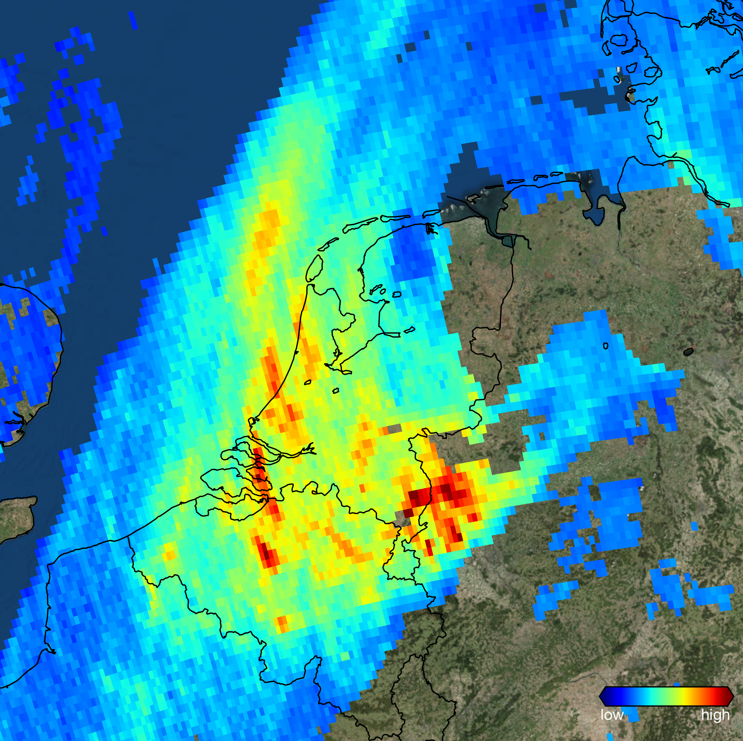 The Copernicus Sentinel-5P satellite imaged high levels of atmospheric nitrogen dioxide over the Netherlands and the Ruhr area in west Germany on 7 November 2017. Launched on 13 October 2017, Sentinel-5P is the first Copernicus mission dedicated to monitoring our atmosphere. This new satellite carries the state-of-the-art Tropomi instrument to map a multitude of trace gases and aerosols that affect the air we breathe and our climate. This is one of the first images delivered by this new mission.